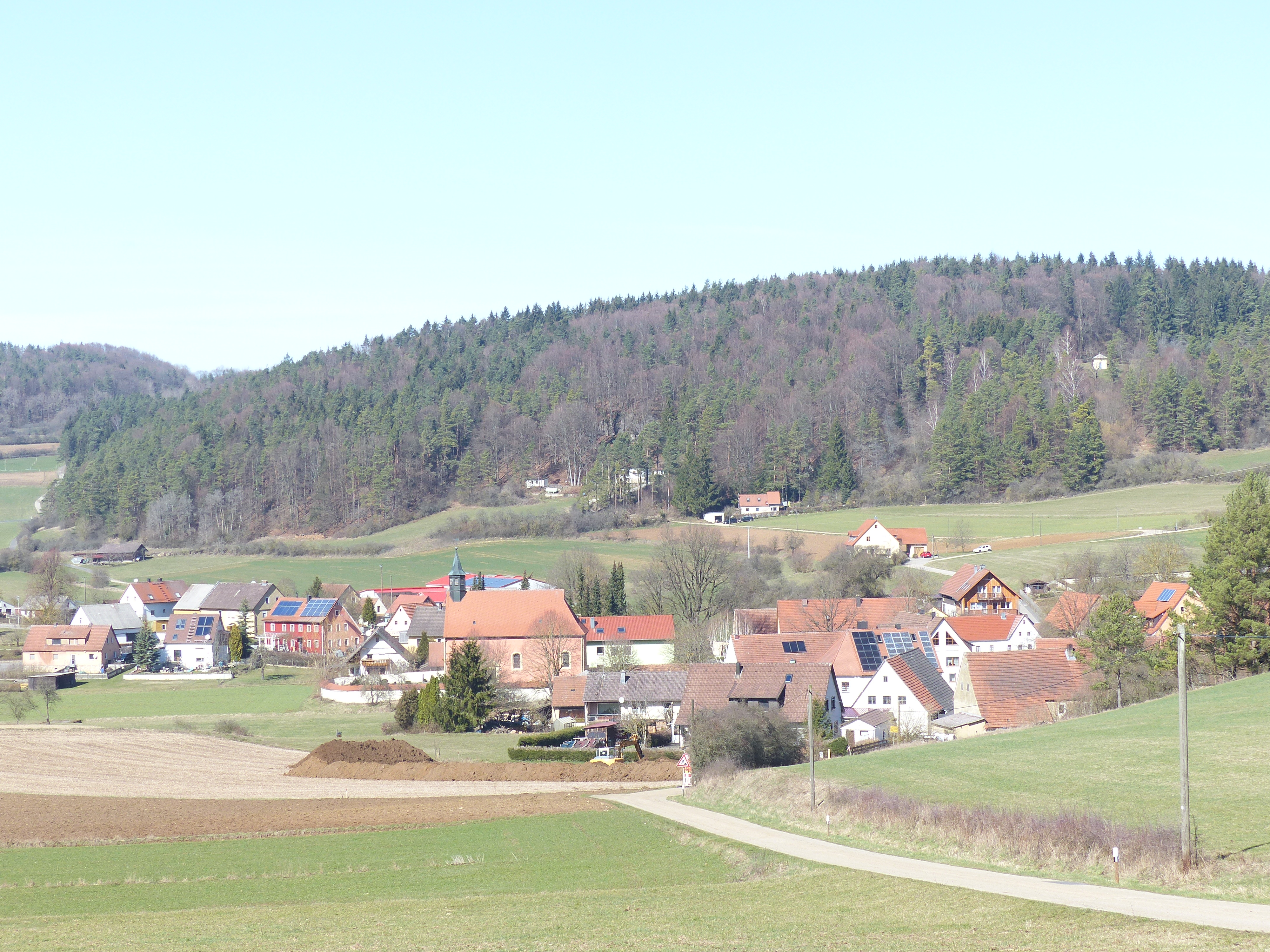 The village Kirchenreinbach, a district of the municipality Etzelwang